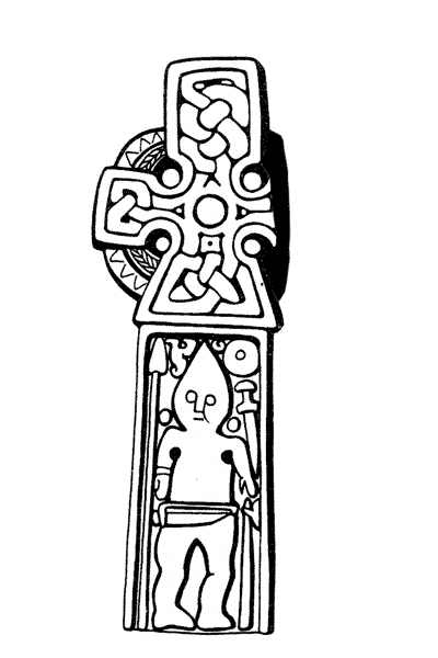 Stonecross from St. Andrew's, Middleton, Ryedale, North Yorkshire. Viking age art. Late 9th/early 10th century.